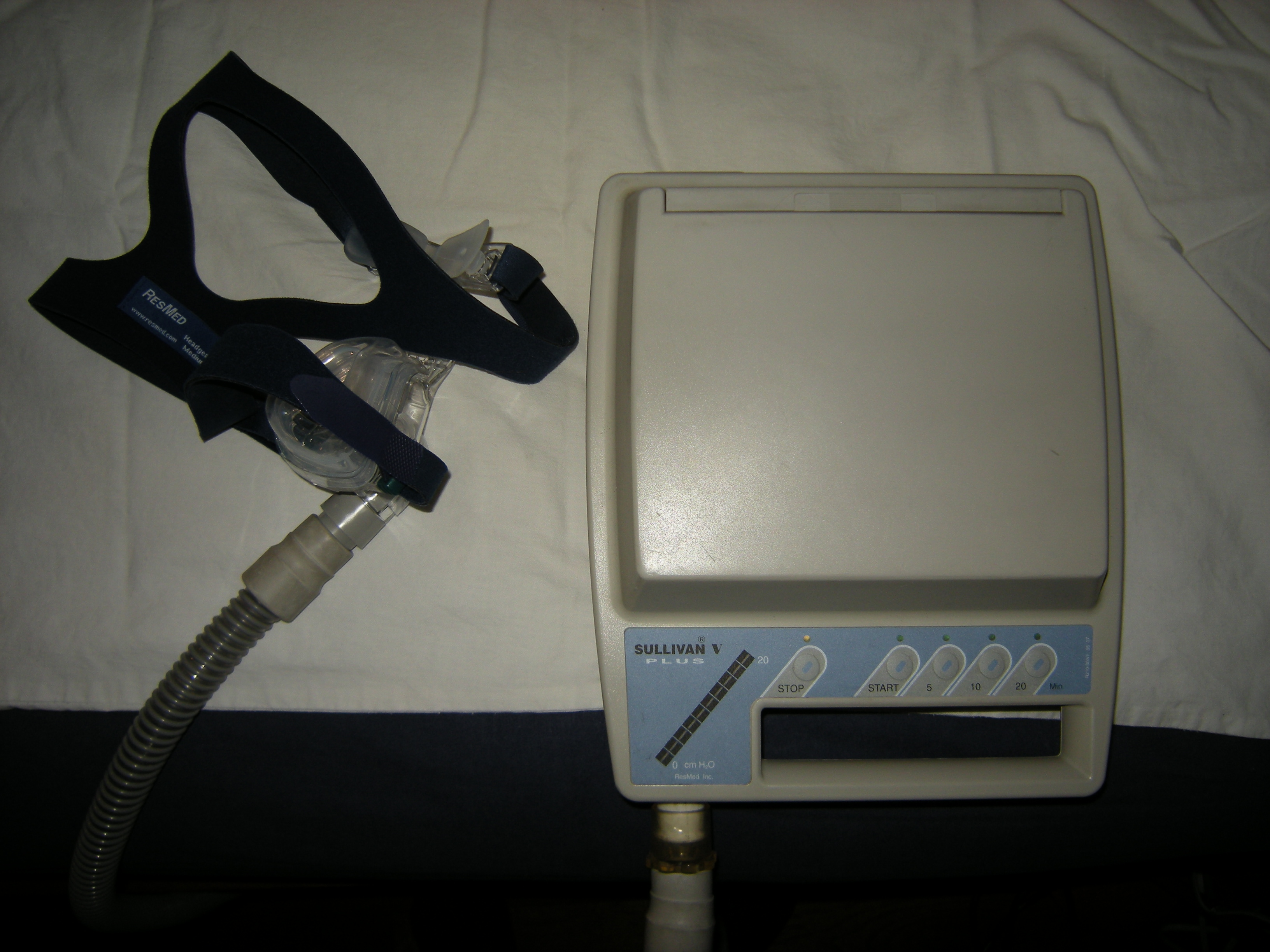 The Sullivan V Pluse, a mid-1990s CPAP, hooked by its air hoseto a CPAP mask typical of a somewhat later era.